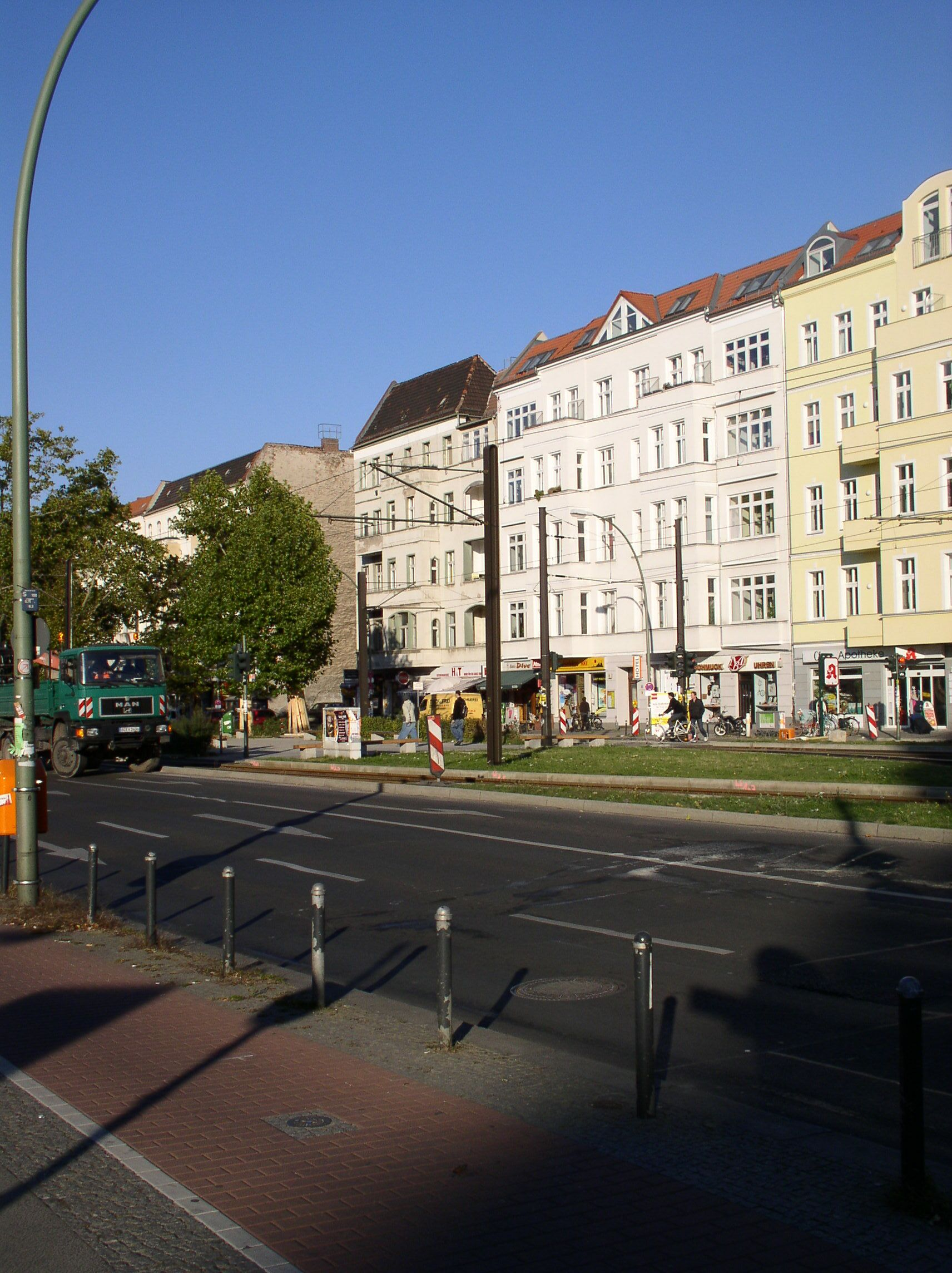 Part of the Warschauer Straße in Berlin